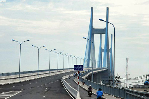 Phu My Bridge